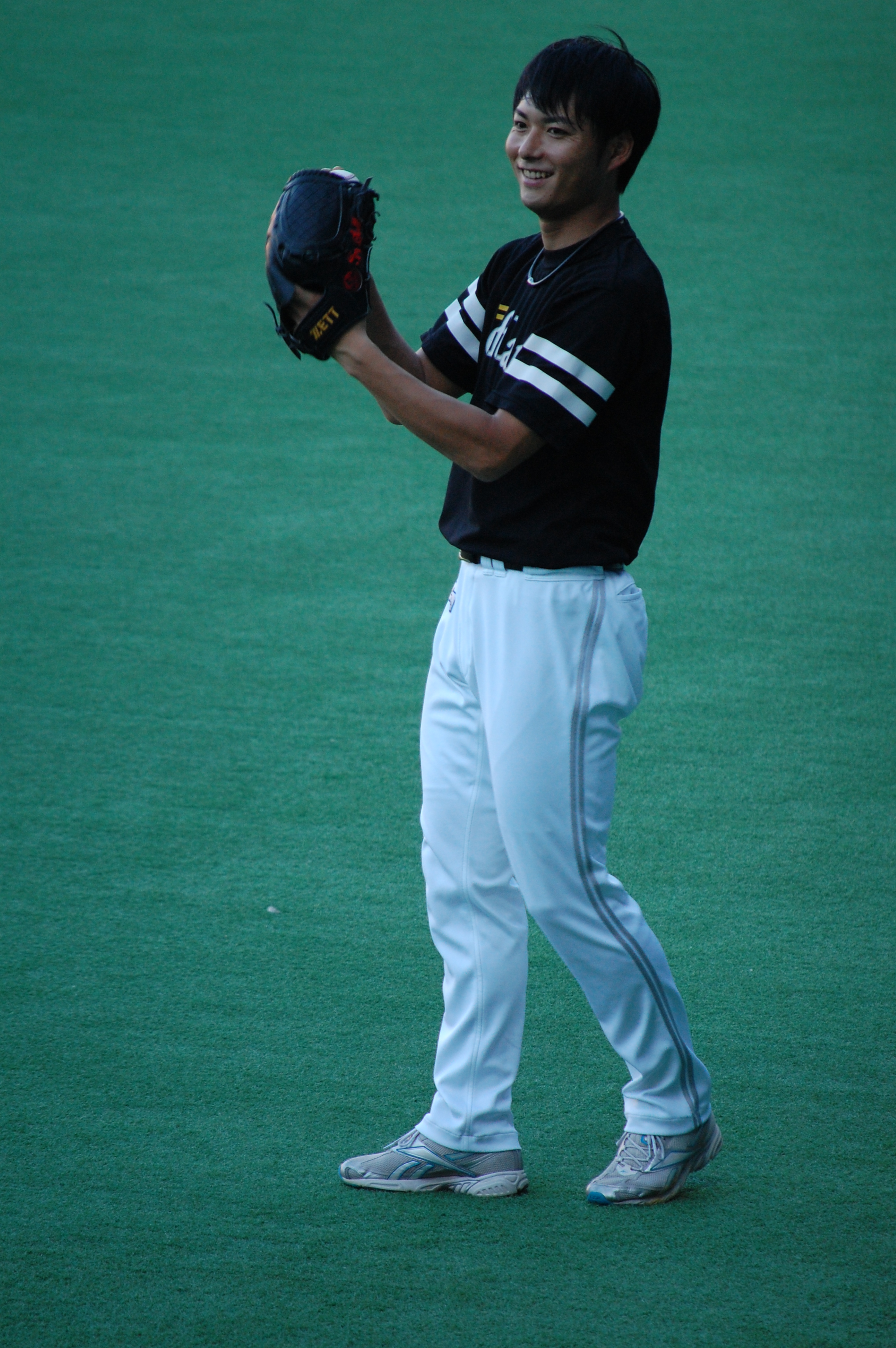 Tadashi Settsu, pitcher of the Fukuoka SoftBank Hawks, at Chiba Marine Stadium.